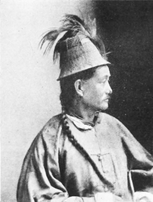 A photograph of a Lepcha, one of the indigenous peoples of the Western Himalayas c. 1900